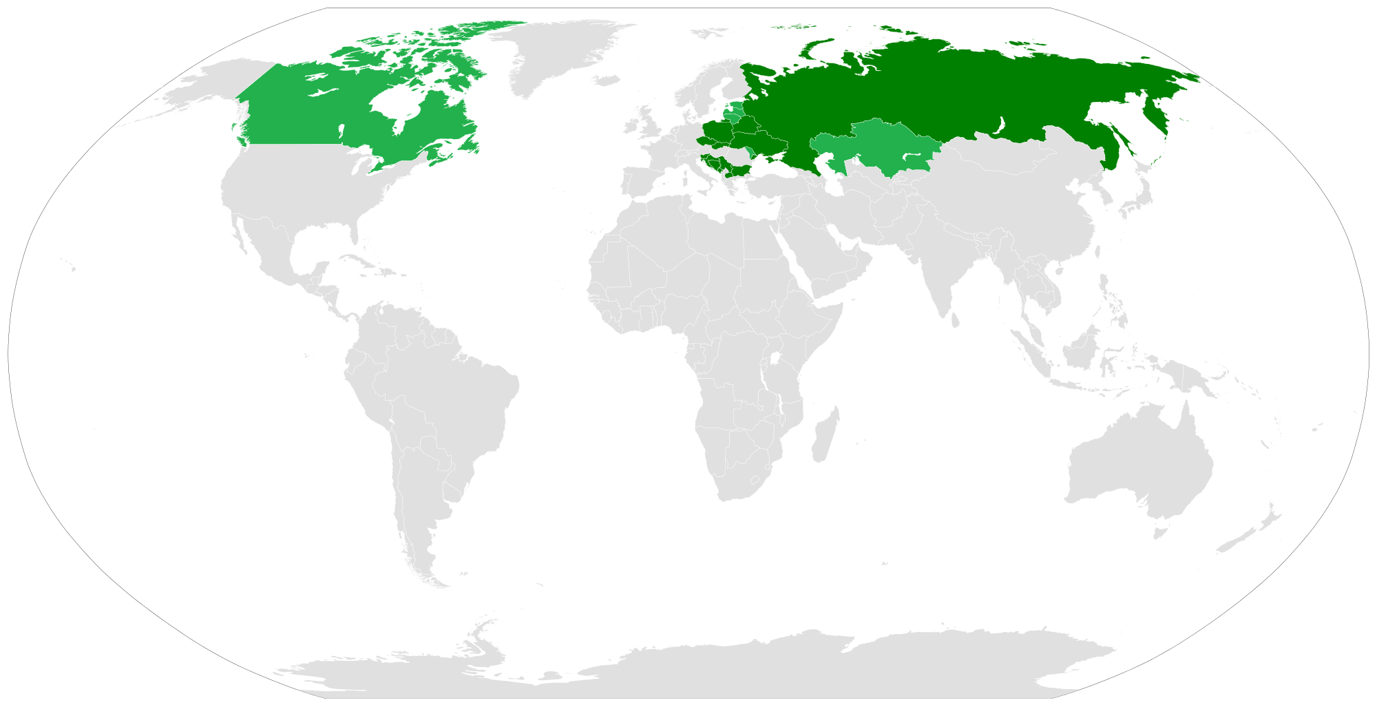 World map of countries with Significant (10%+) minority populations Majority Slavic ethnicities